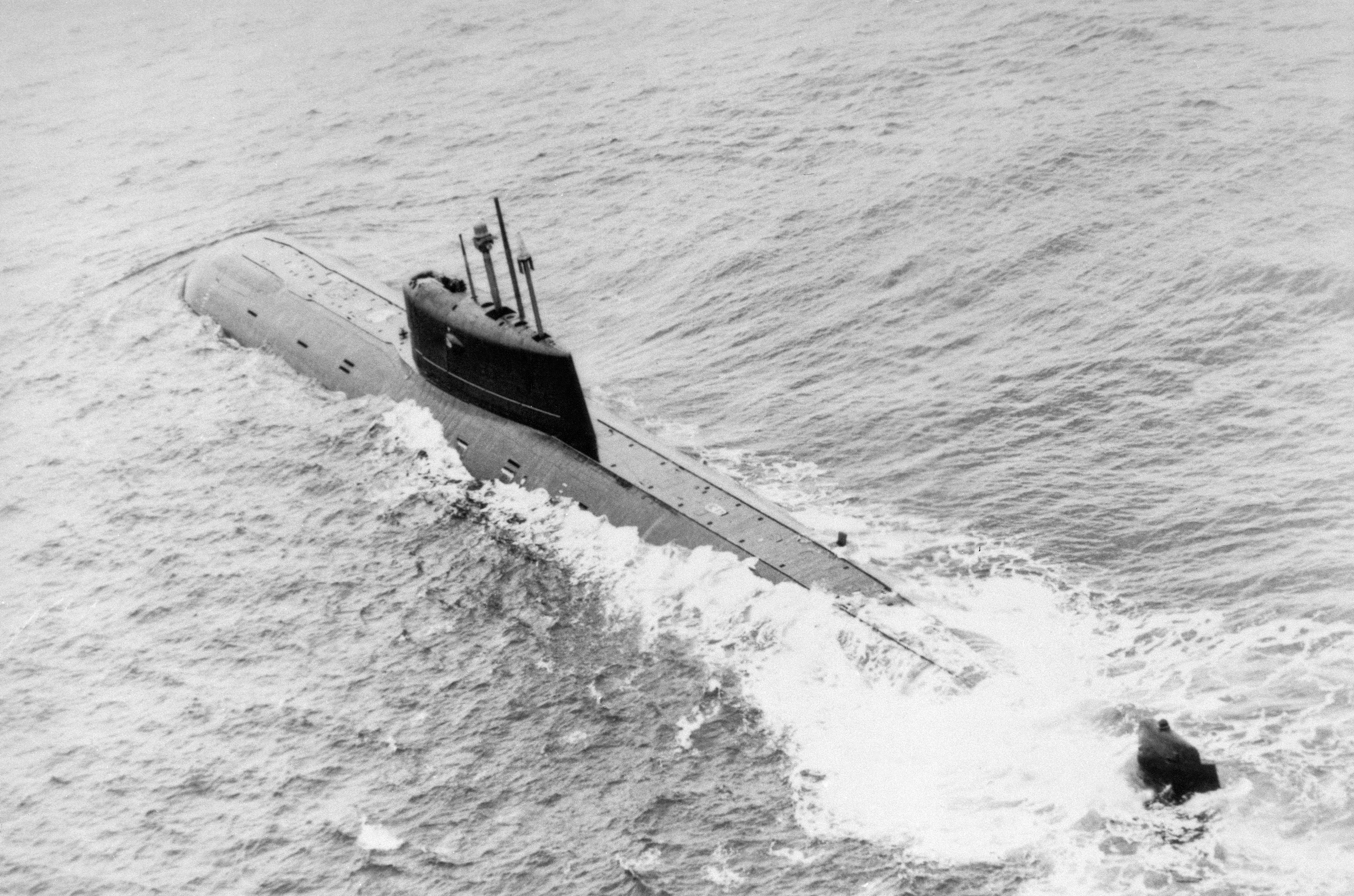 An aerial port quarter view of a Soviet Mike class nuclear-powered attack submarine underway.